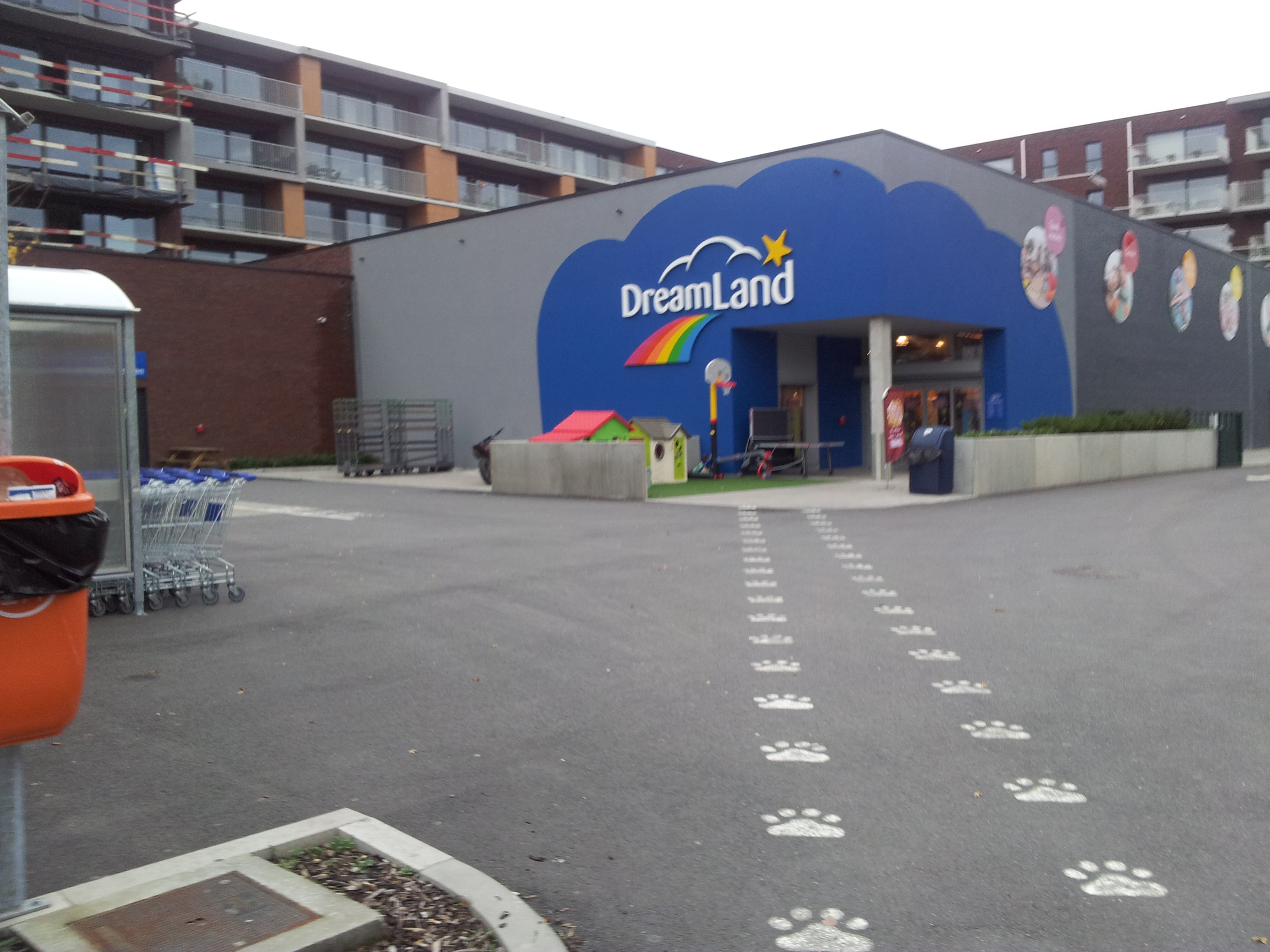 DreamLand toystore in Halle, Belgium.